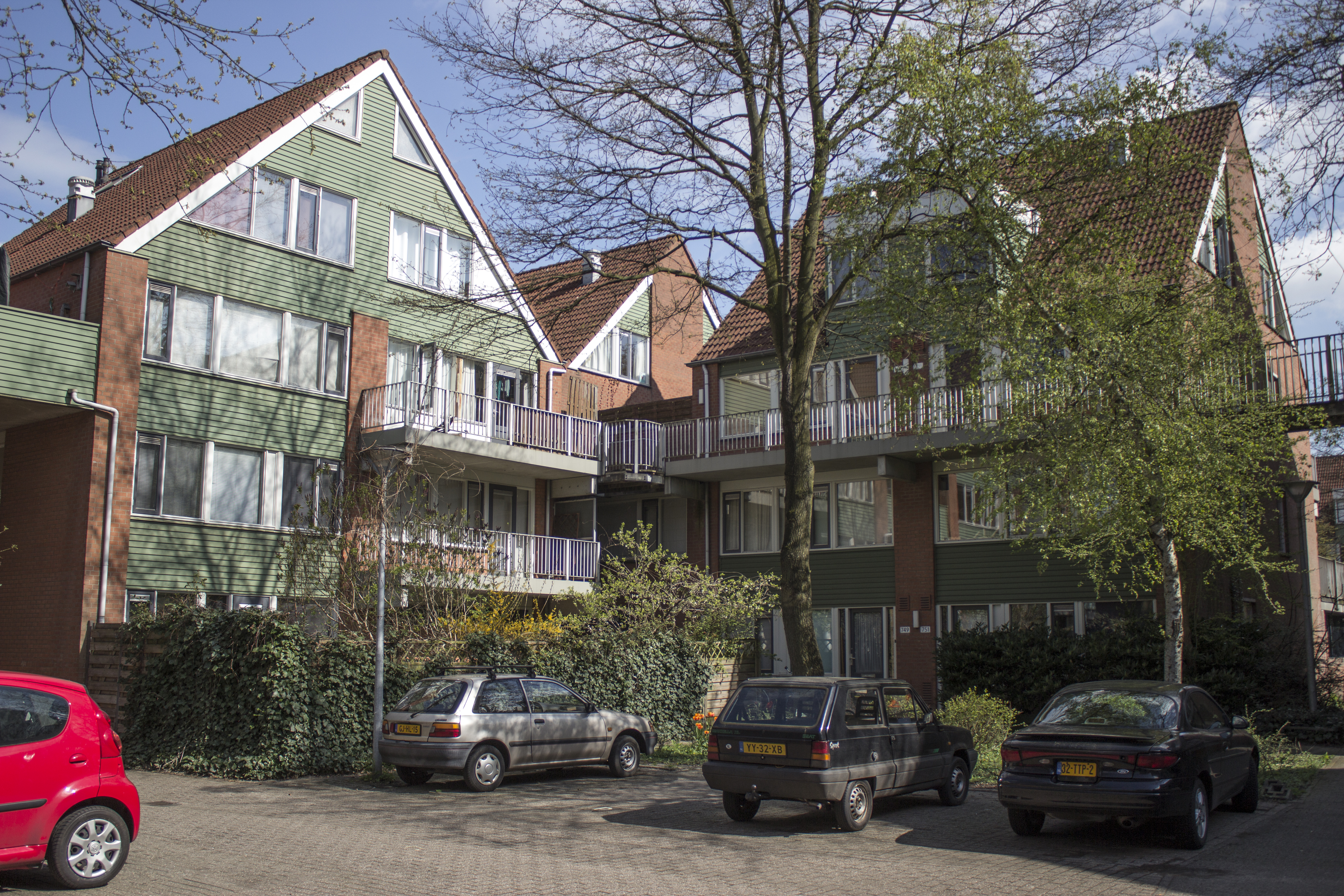 Experimentele drager-inbouw architectuur aan de Hondsrug in Lunetten, Utrecht